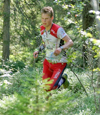 Carl Waaler Kaas at World Orienteering Championships 2010 in Trondheim, Norway - Middle Distance Qualification